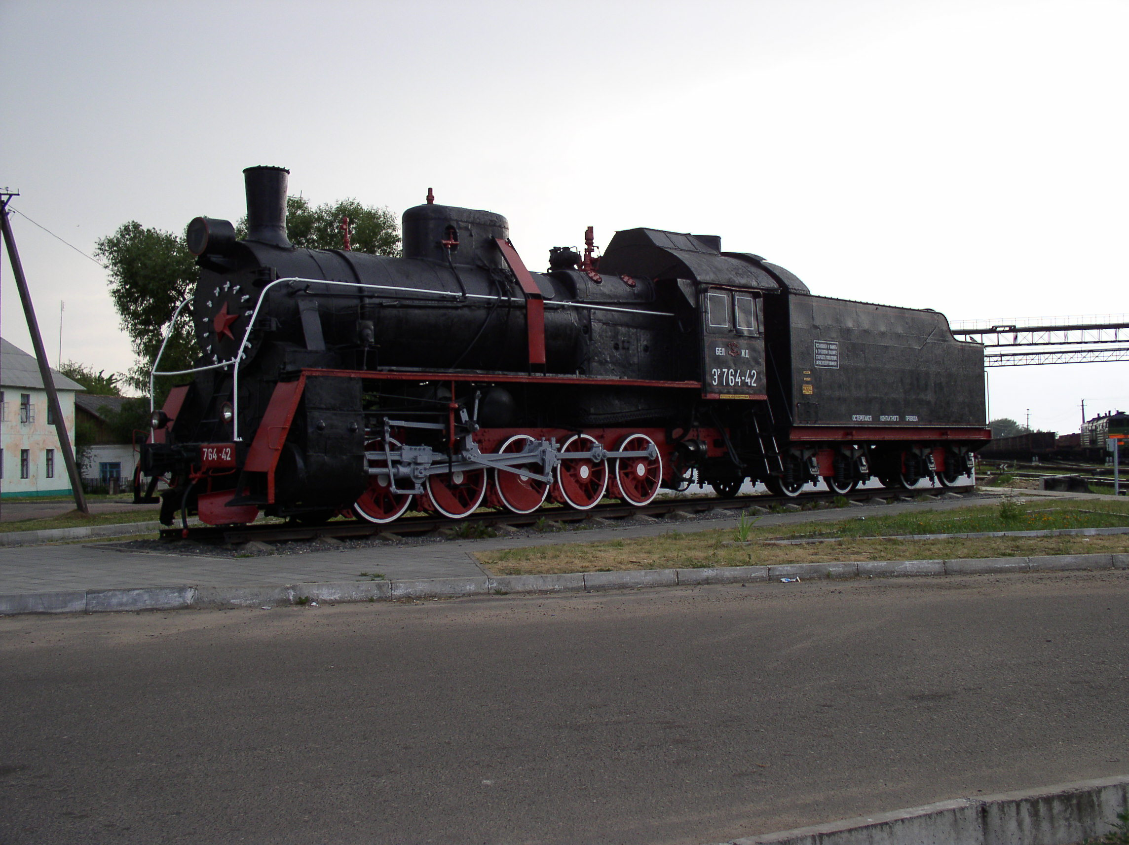 Steam locomotive Er 764-42 (Эр 764-42), Monument in Maladzechna, Belarus (number indicates production of MAVAG)